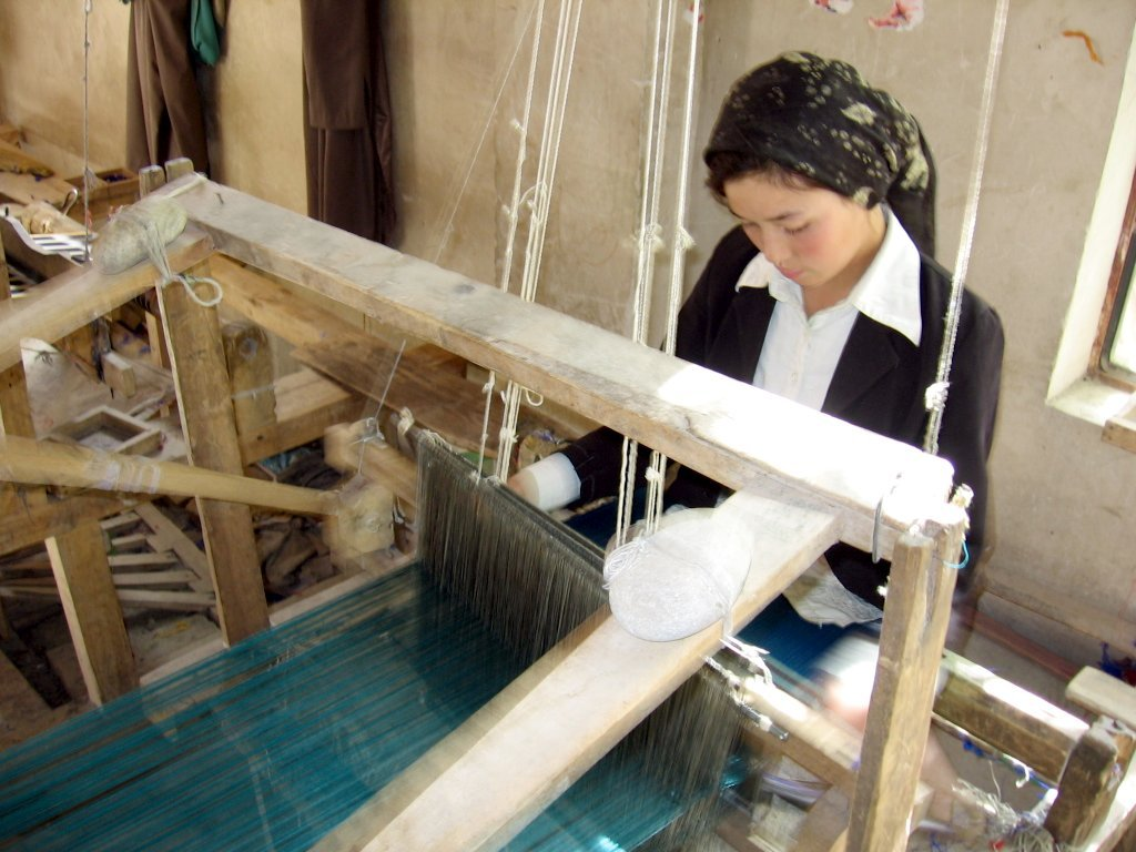 Khotan (Hotan / Hetian) is an oasis city in the Xinjiang Uygur Autonomous Region of the People's Republic of China. Atlas silk factory.